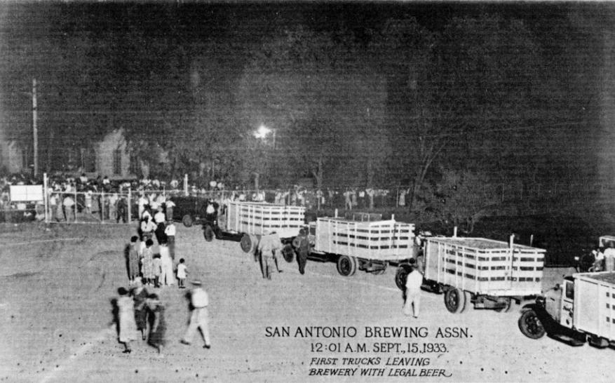 The end of Prohibition, and beer begins to flow from the Pearl Brewery again. Photo is part of the Silver Ventures collection.